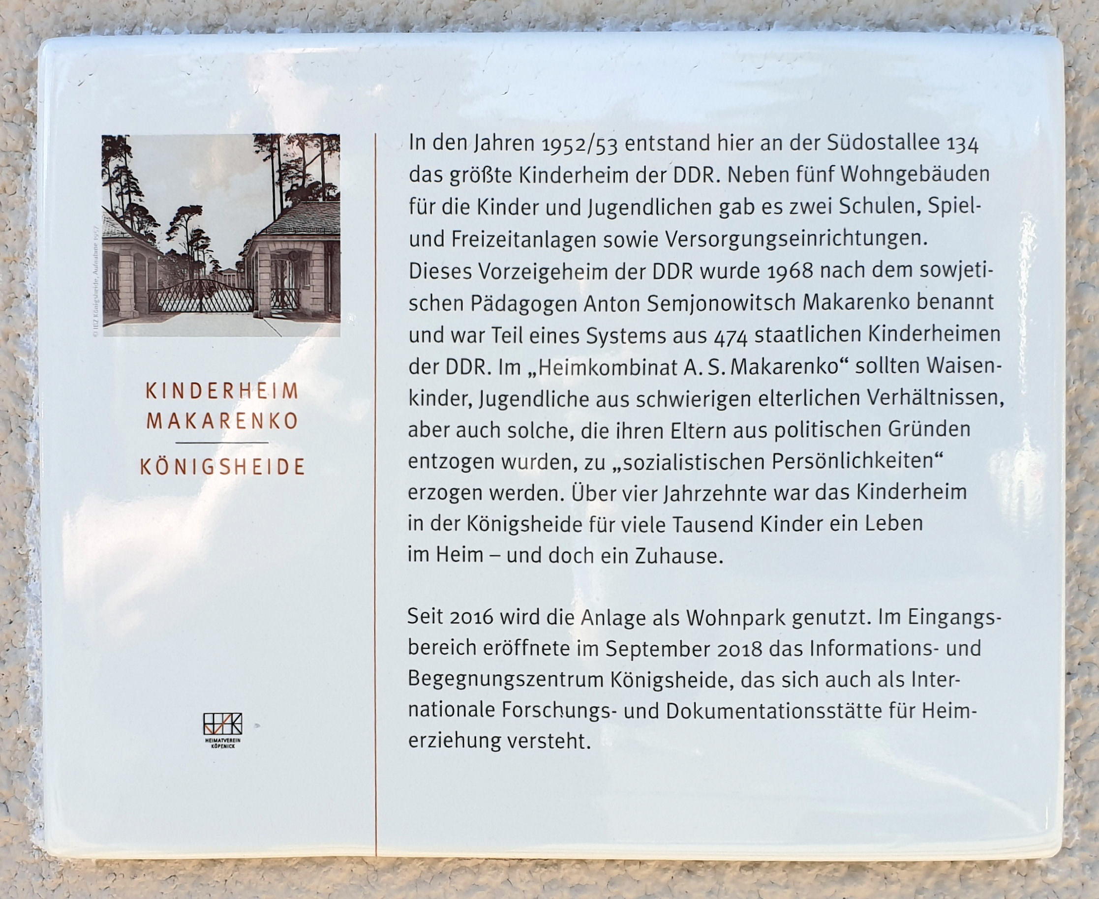 Memorial plaque, Kinderheim Makarenko, Südostallee 132, Berlin-Johannisthal, Deutschland